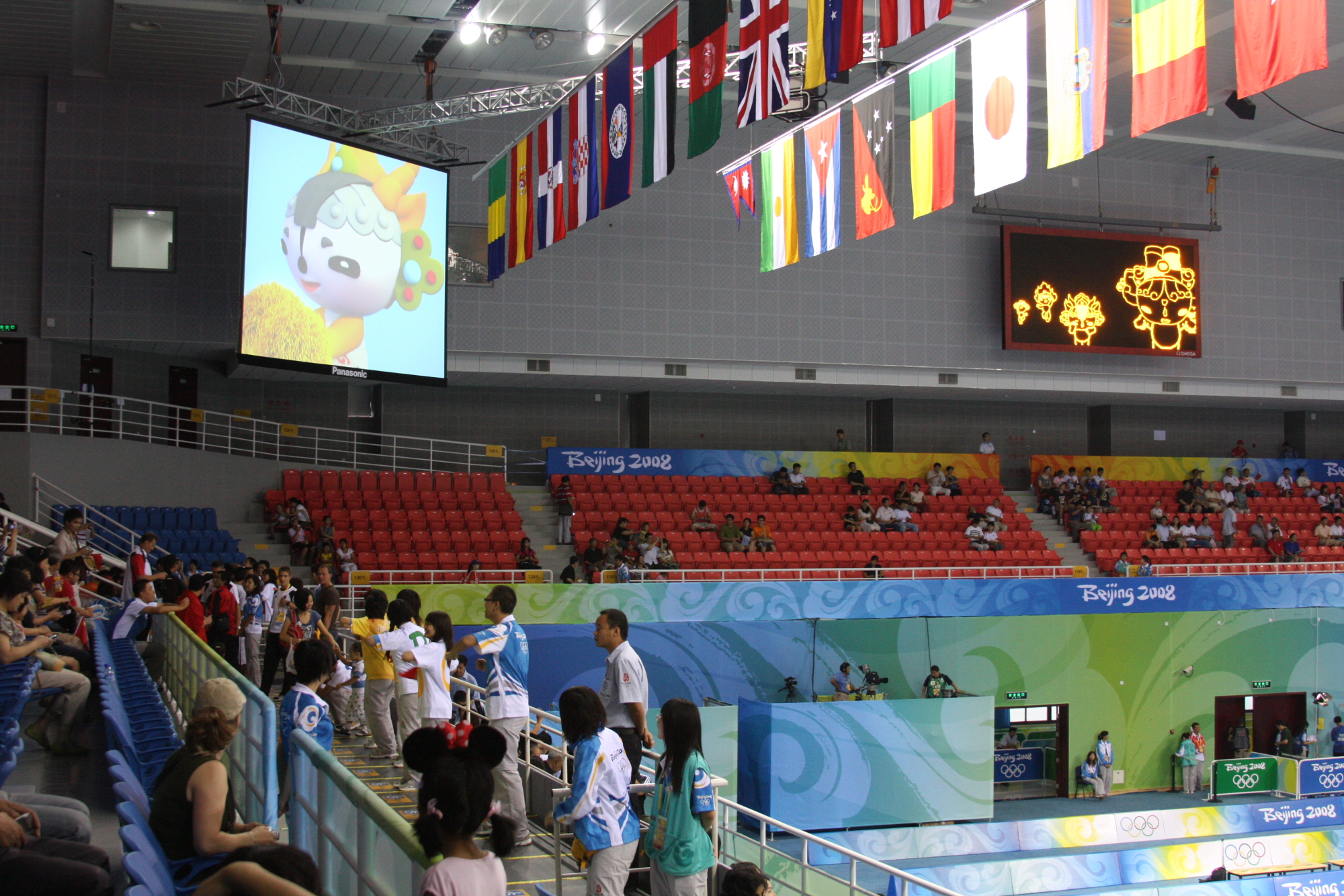 other0053